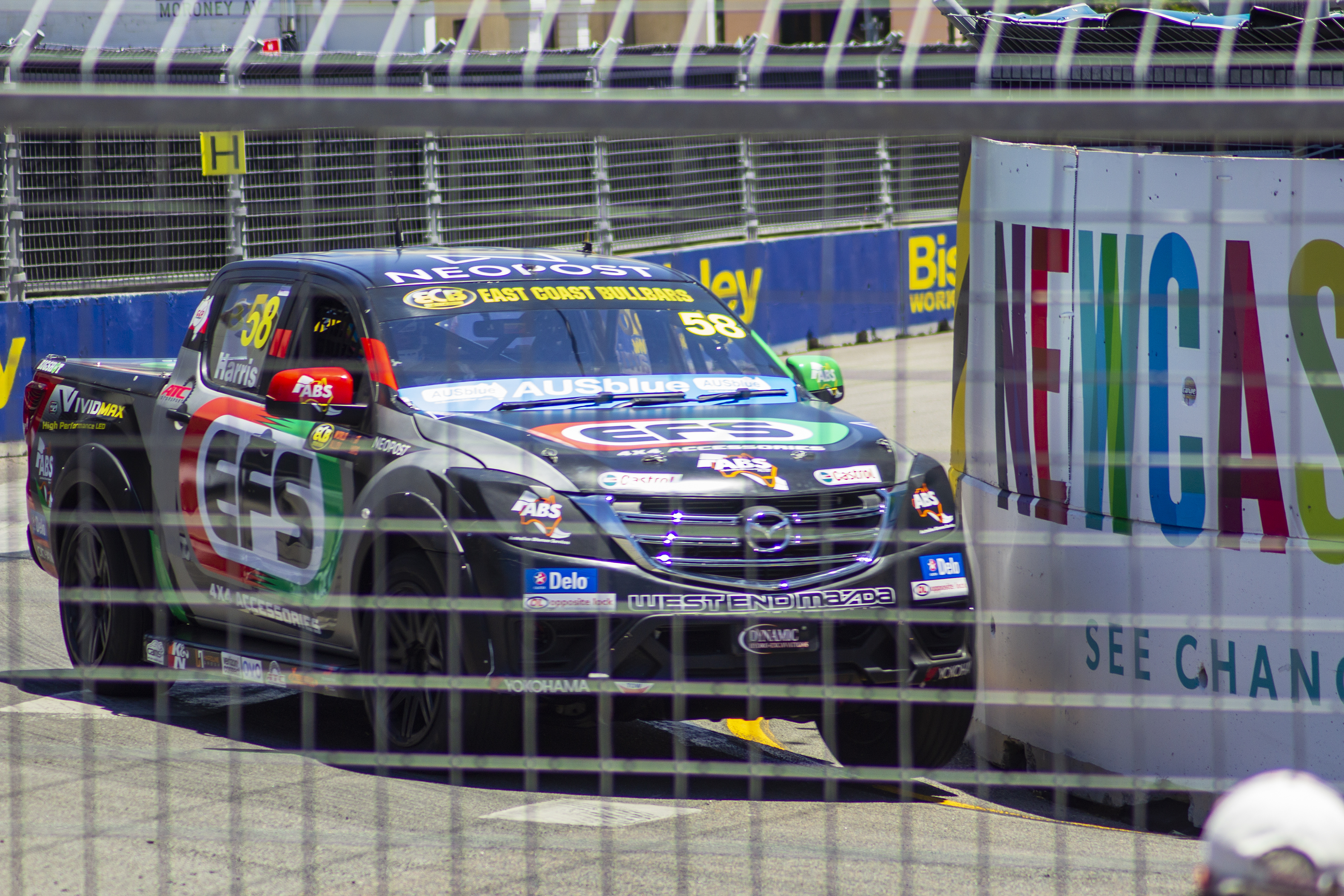 Ryal Harris at the 2018 Coates Hire Newcastle 500